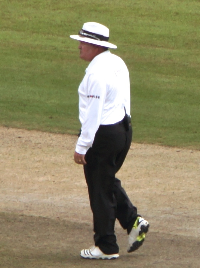 At the Cricket 2